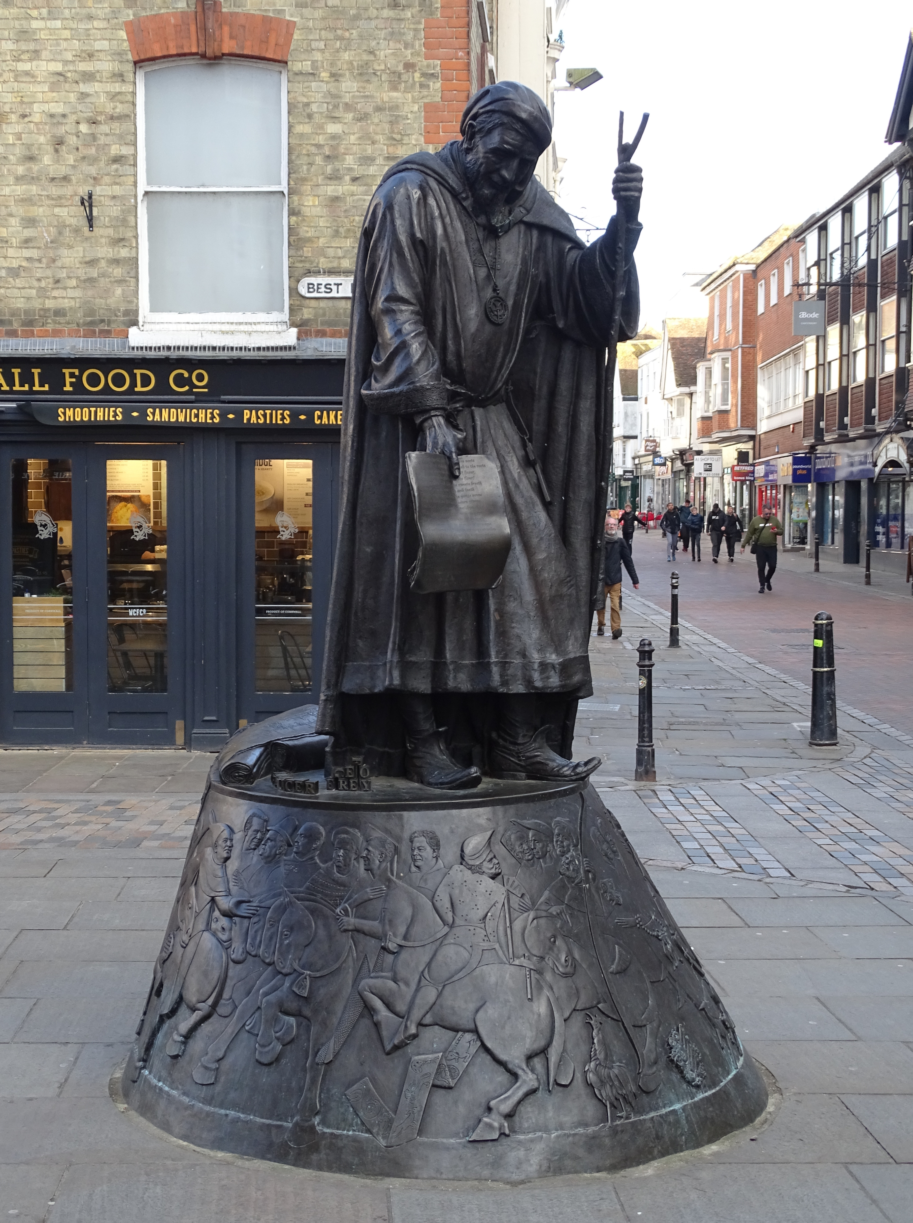 Sam Holland & Lynn O'Dowd, Geoffrey Chaucer (2016). Statue of Geoffrey Chaucer, dressed as a Canterbury pilgrim, on the corner of Best Lane and the High Street. He faces the Eastbridge Hospital, where many pilgrims heading for the cathedral spent the night, holding the writing on vellum of the opening text of the Canterbury Tales, while around his neck he wears an astrolabe - he wrote a guide to how these should be used